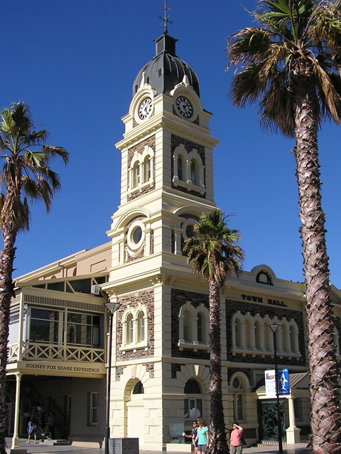 Glenelg town hall, Moseley Square. Photo by Adam Trevorrow, Taken 26th November 2005. Low resolution (640x480) image rights released 4 December 2006.